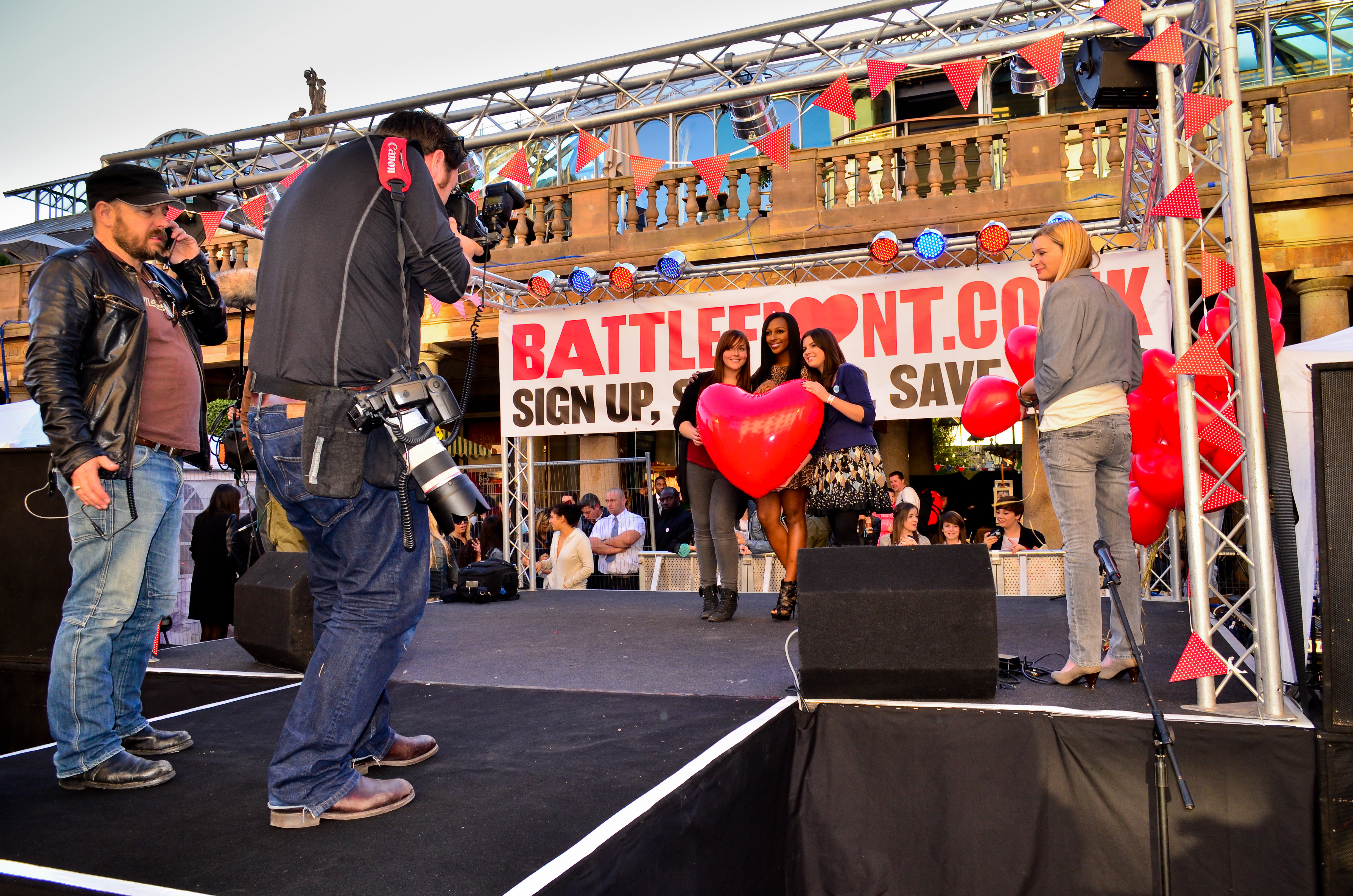 Alexandra Burke and Battlefront got a record number of people to sign up for organ donation in one hour.